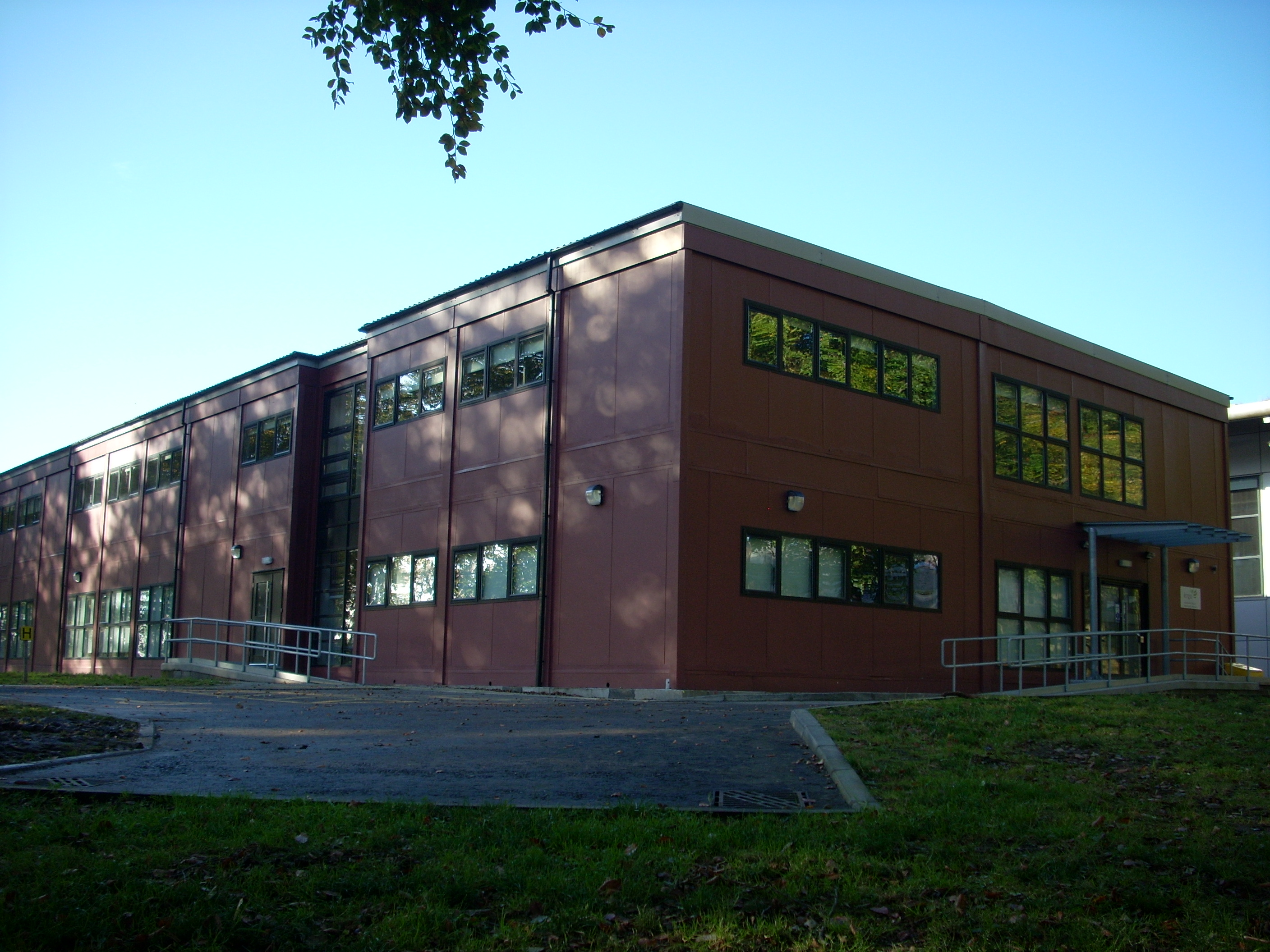 Temporary building used by the International College at the Robert Gordon University, Aberdeen, UK. The building is operated by a partnership between the university and the Australian company Navitas. The building is located at the Garthdee campus, behind the RGU:Sport building.